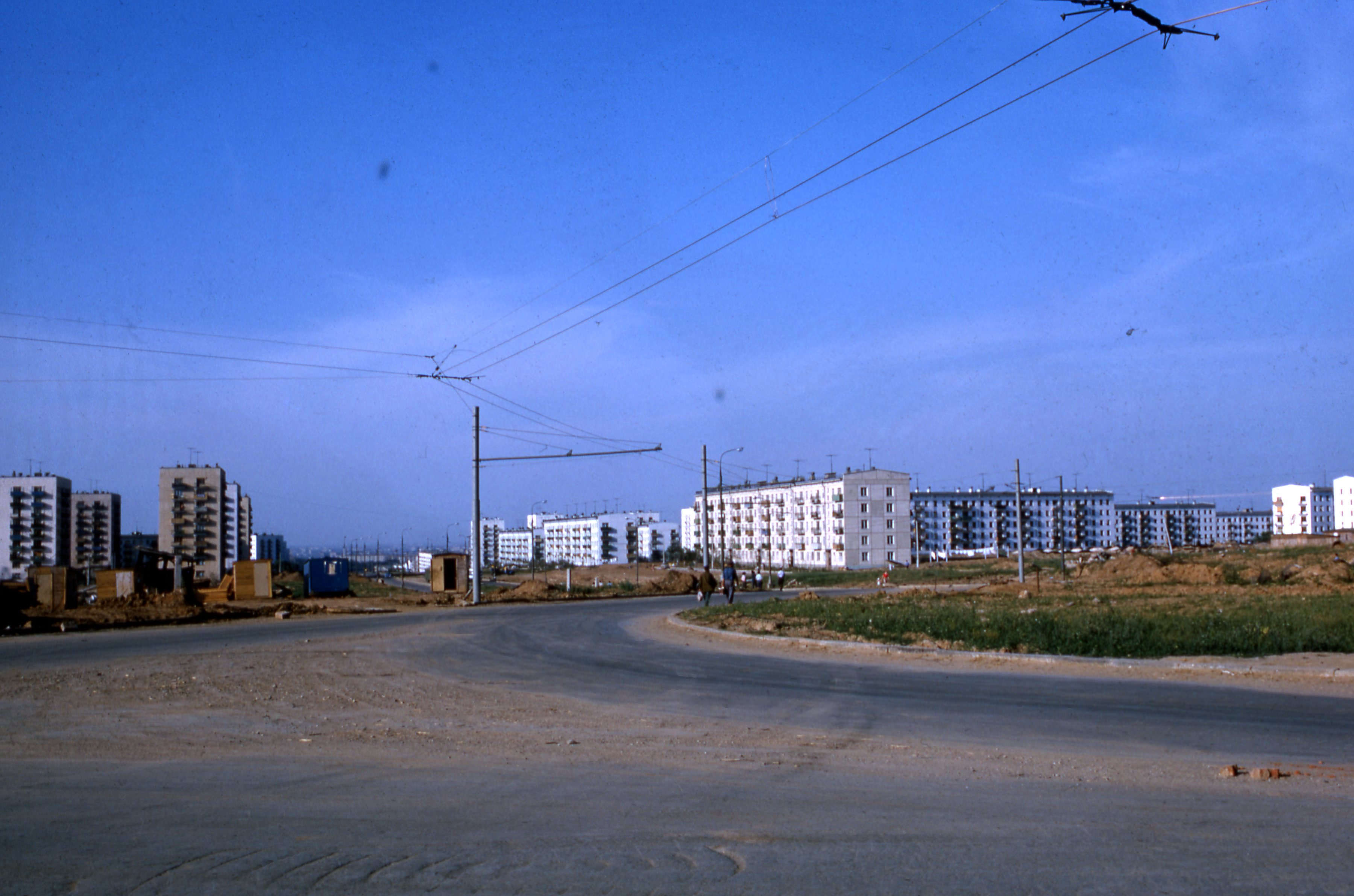 These images were taken by Thomas T. Hammond during his trip to the Soviet Union. This specific image features the outskirts of Moscow.